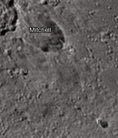 Mitchell lunar crater as seen from Earth with satellite craters labeled